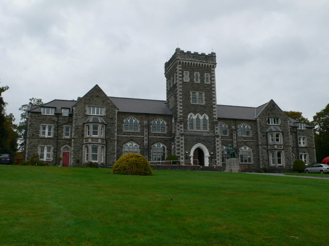 Coleg y Bala Coleg y Bala is a centre for children and young people owned by the Presbyterian Church of Wales. It was built in 1867 as an Educational academy and became a Theological College in 1891. Since 1969 it has been run as a youth centre.